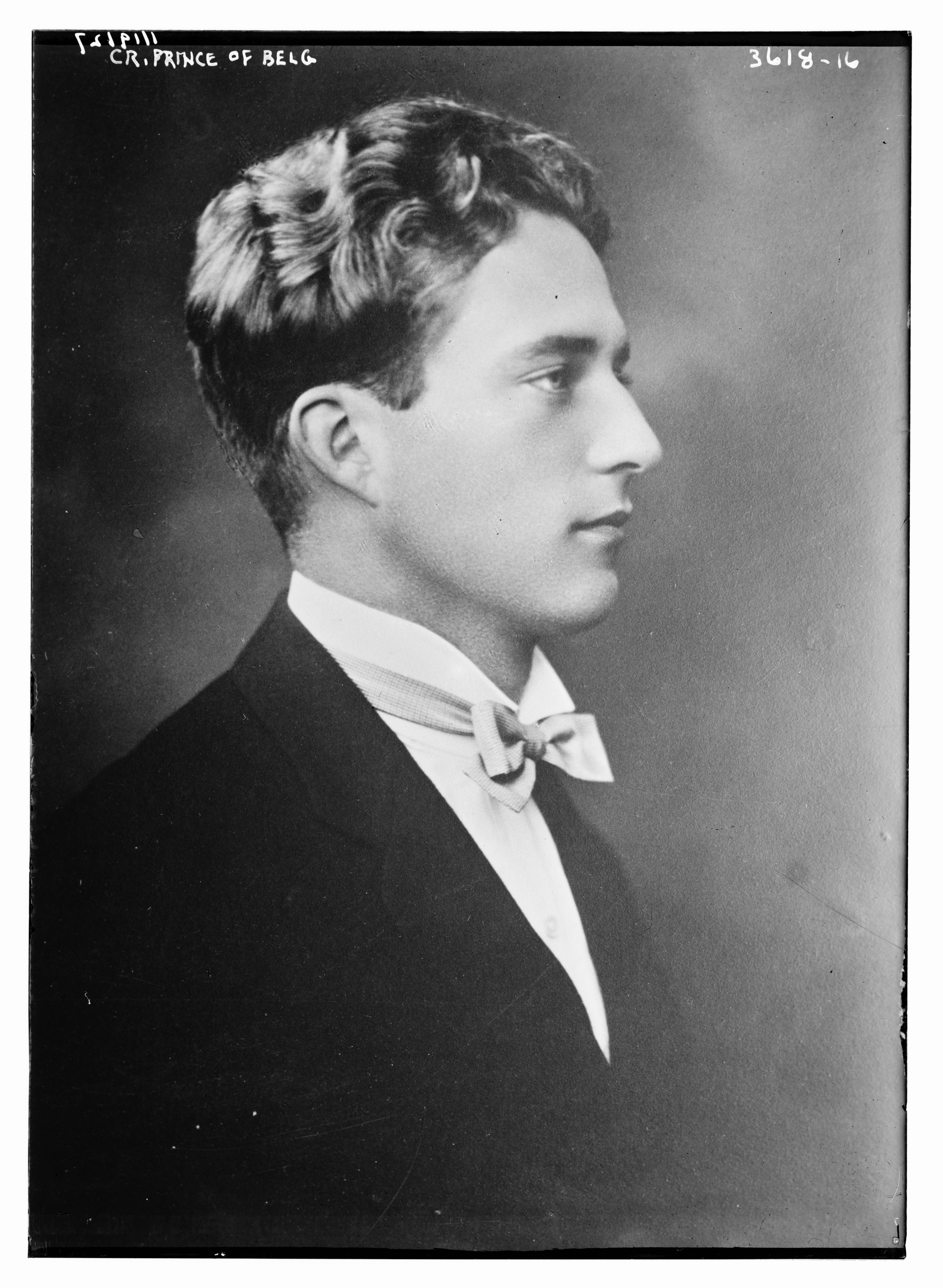 Title: Cr. [i.e., Crown] Prince of Belg. [i.e., Belgium] Abstract/medium: 1 negative : glass ; 5 x 7 in. or smaller.